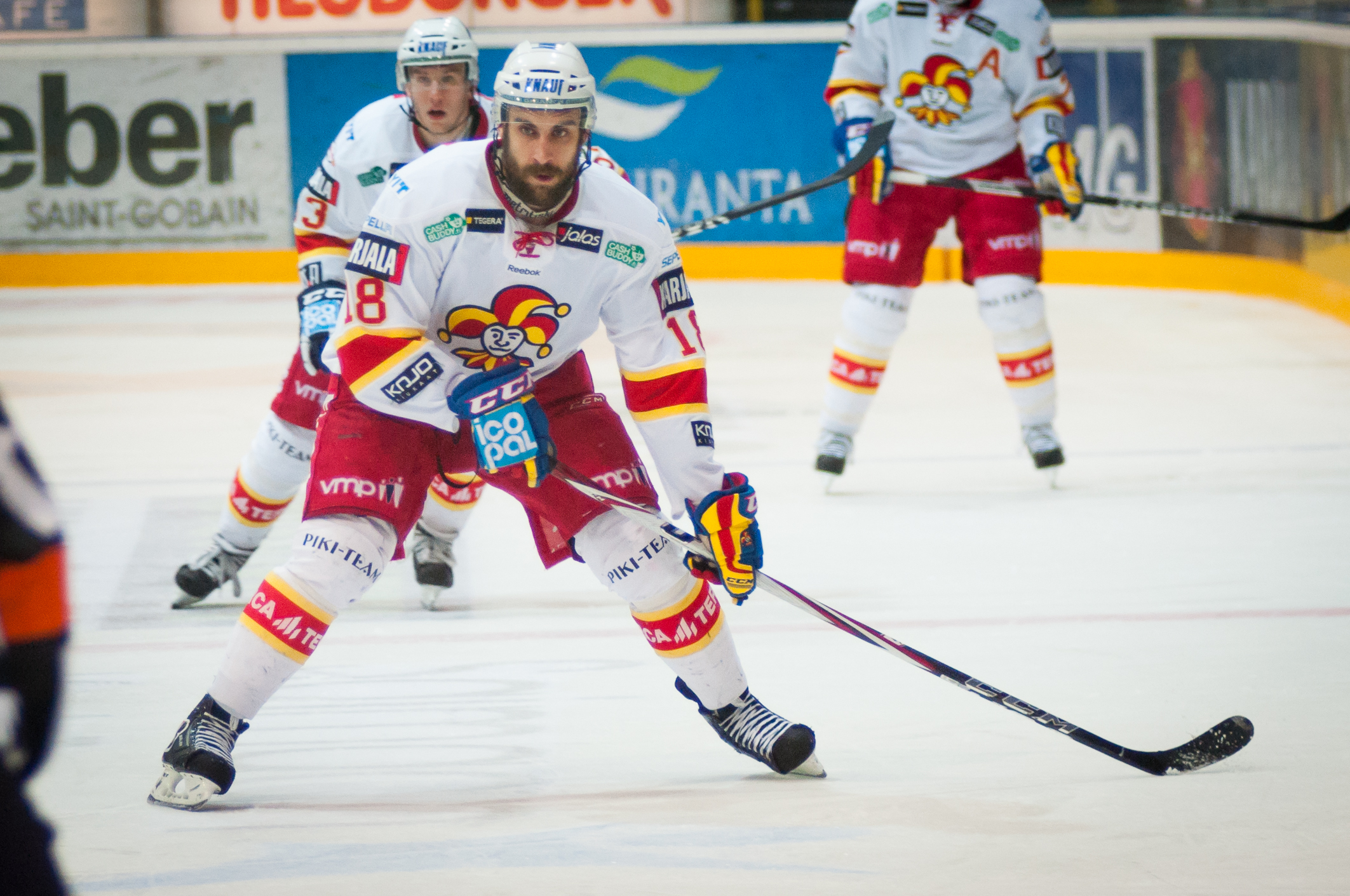 Finnish ice hockey forward Semir Ben-Amor playing for Jokerit Helsinki against SaiPa Lappeenranta in Lappeenranta, Finland.